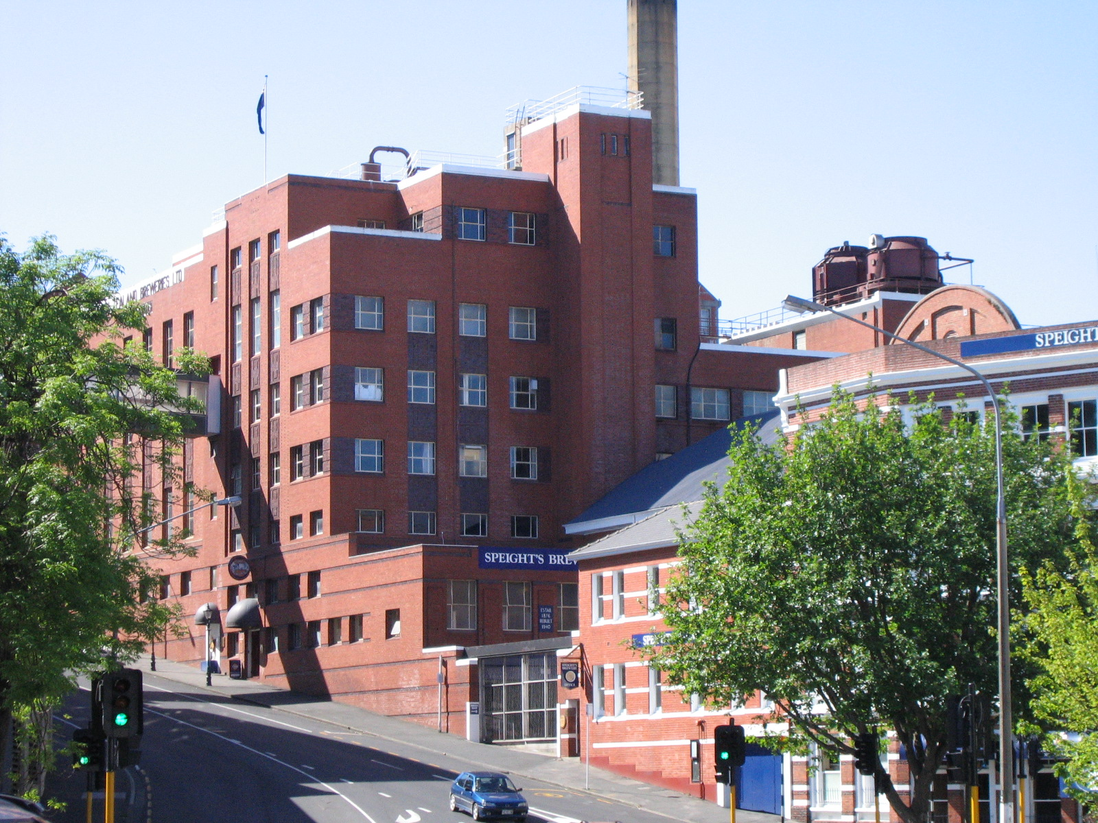 Speights brewery